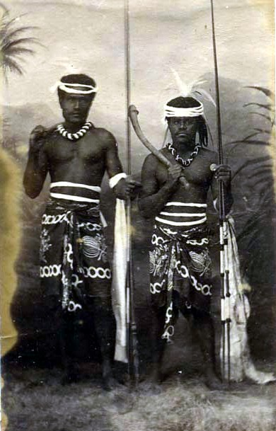 Two Kanak (Canaque) warriors holding weapons, New Caledonia. Carte de visite (albumen print), c 1880 (removed from an album)